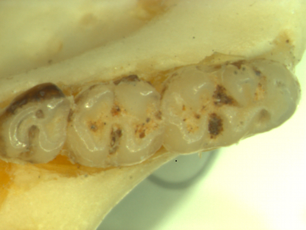 Lower molar row of the holotype of Calomys hummelincki from Curaçao, Dutch Antilles. This is specimen RMNH 15994 in the collections of the Netherlands Center for Biodiversity Naturalis.